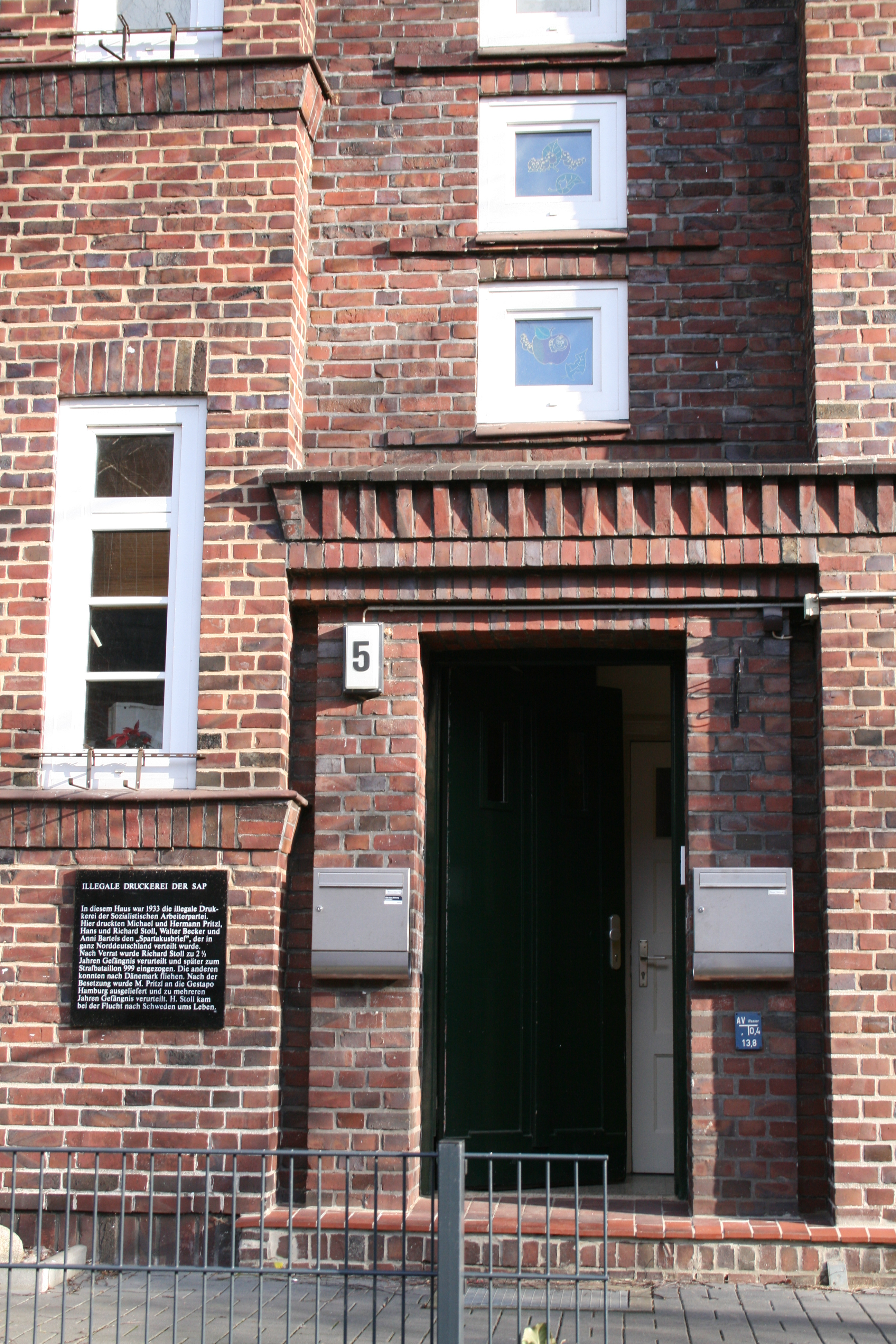 The entrance of the house Heysestraße 5 with a commemorative plaque for the members of the resistance againt Nazism who had there a printing place for the Socialist Workers' Party of Germany